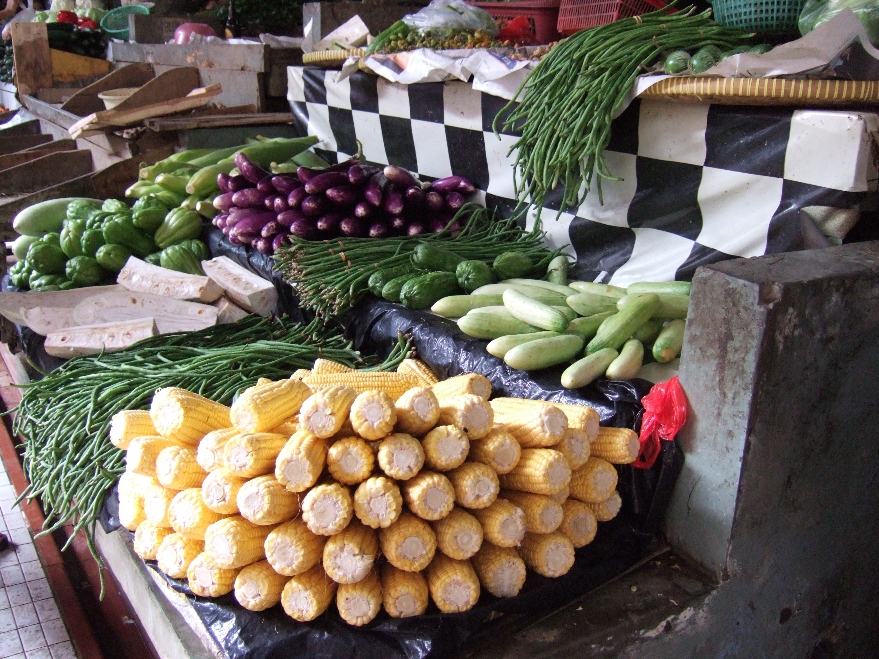 Corn and other vegetables in Jakarta, Indonesia